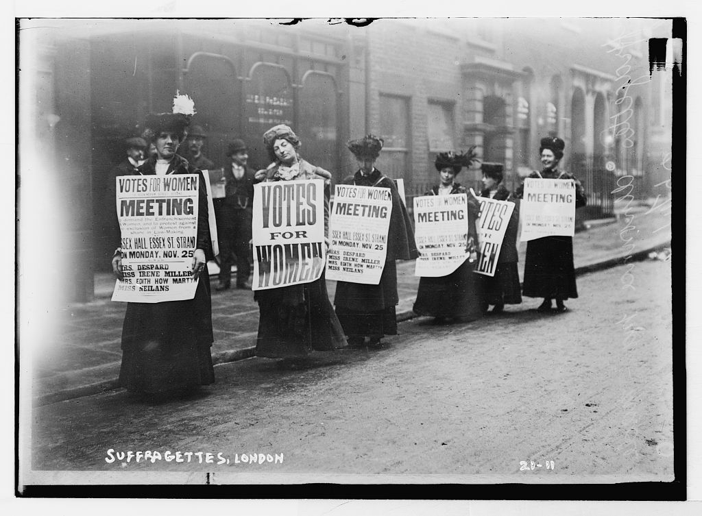 Title: Suffragettes, London Abstract/medium: 1 negative : glass ; 5 x 7 in. or smaller.